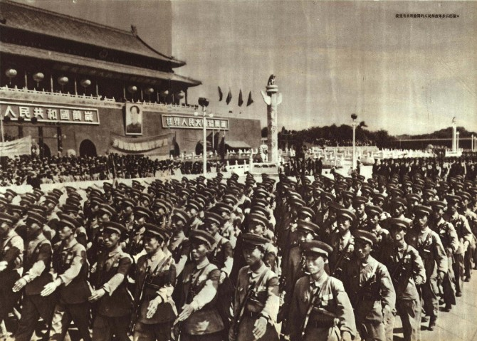 1950年10月，中华人民共和国第一个国庆节，1950年8月的《人民画报》。